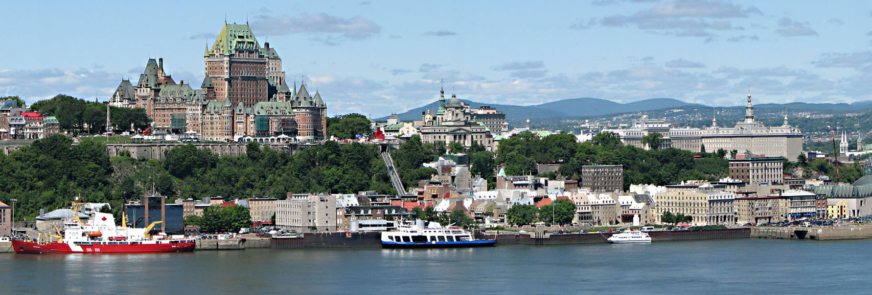 Panorama of Quebec City from Levis.